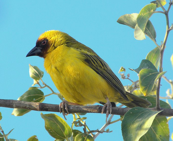 al-habbak